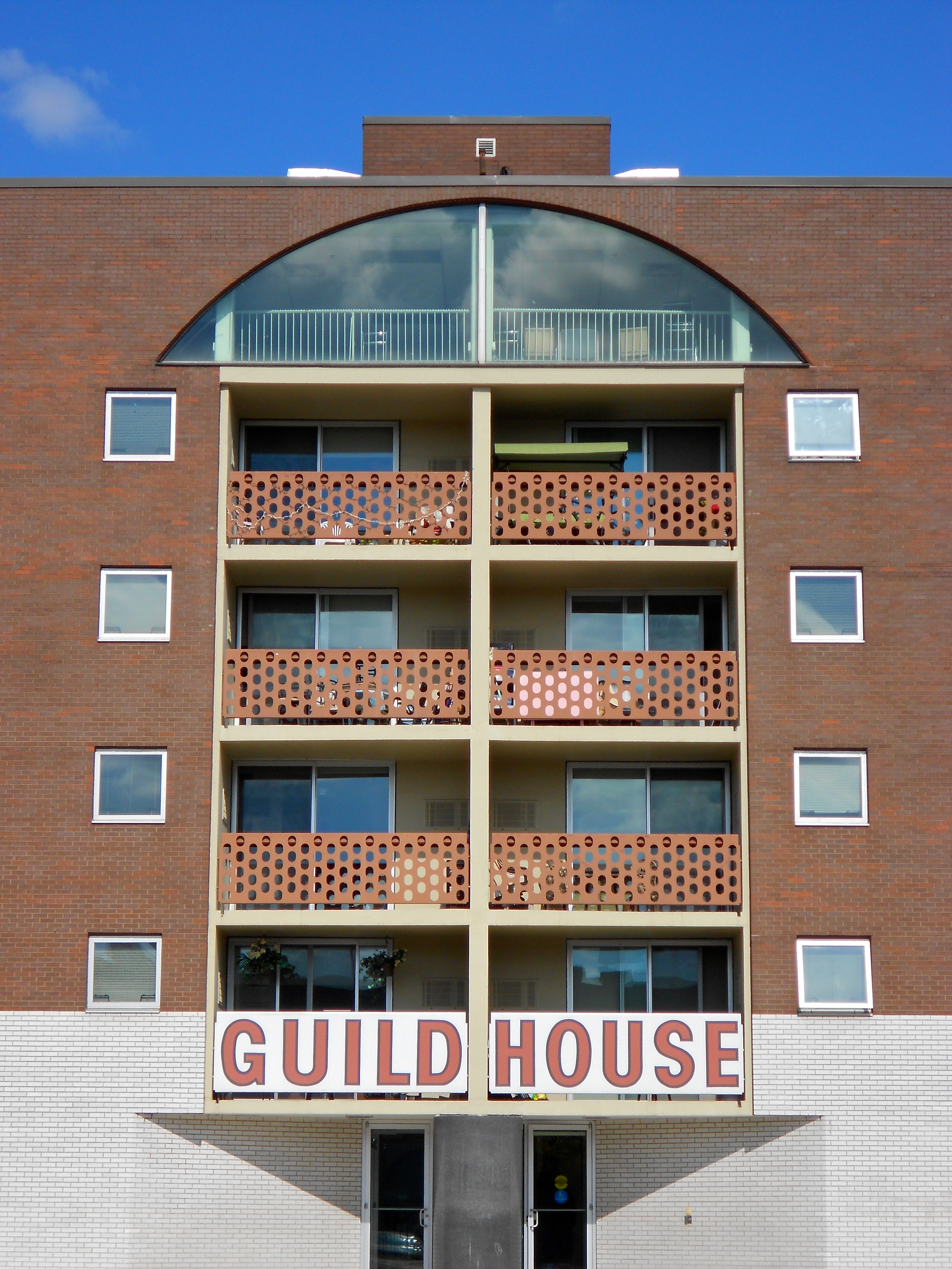 The Guild House in Philadelphia, Pennsylvania, designed by Robert Venturi, 1965 datestone, on Spring Garden Street at 7th. One of the first postmodern buildings